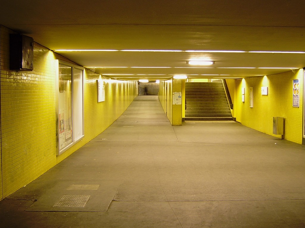 Berlin, pedestriantunnel at the undergroundstation Jakob-Kaiser-Platz